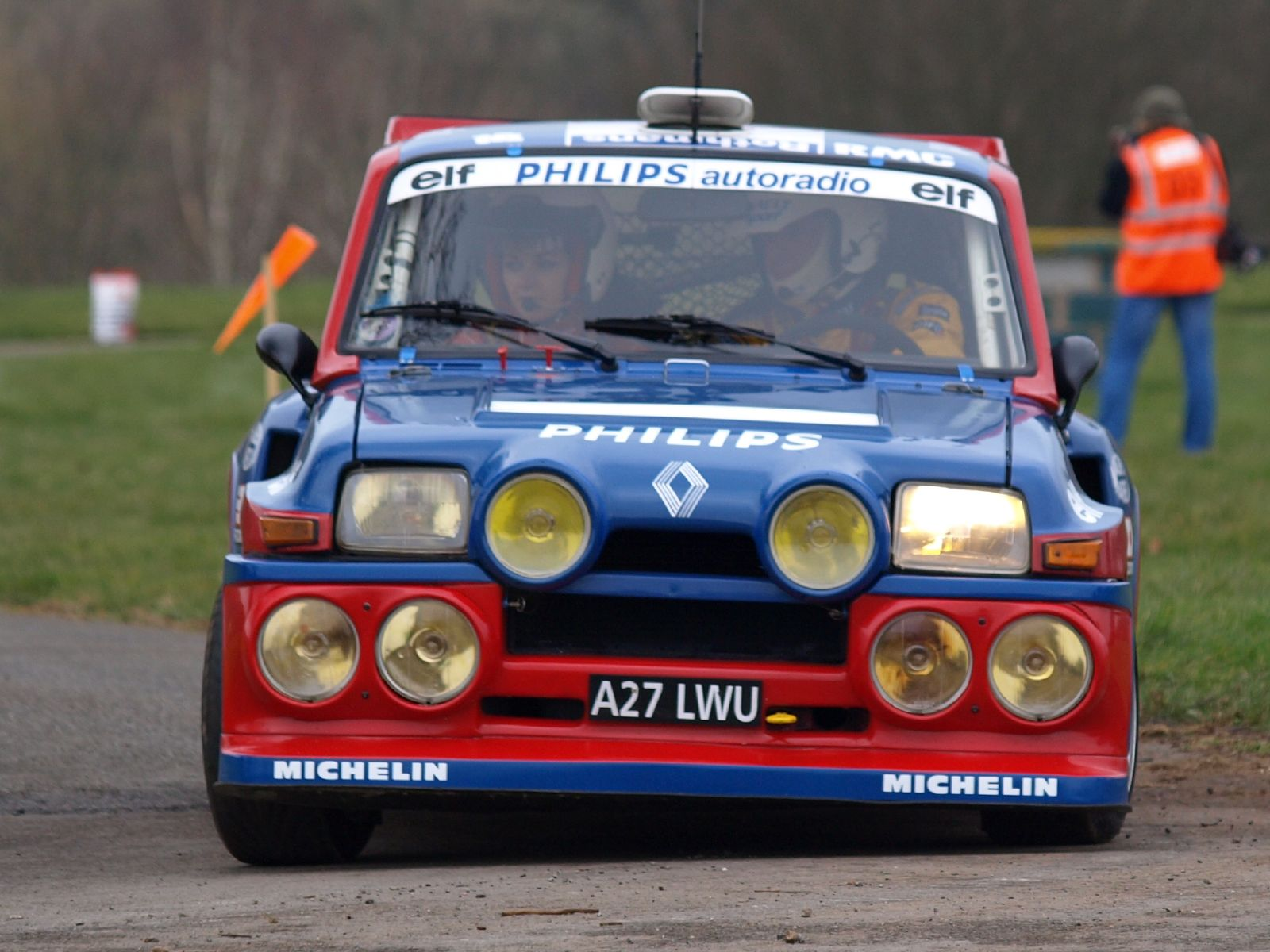 Jean Ragnotti's Renault 5 Maxi Turbo driven at Race Retro 2008, the International Historic Motorsport Show, at Stoneleigh Park, Coventry, England.